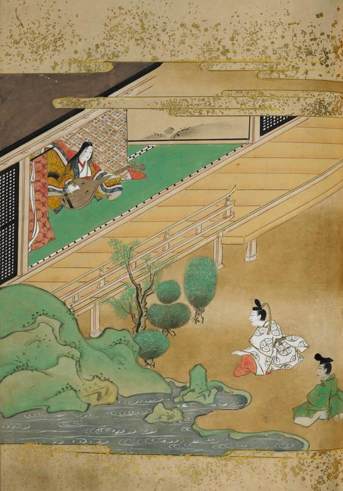 Prince Takayoshi and Lady Mikushige-dono. From Ehon Shinkyoku. Owned by Meisei University.